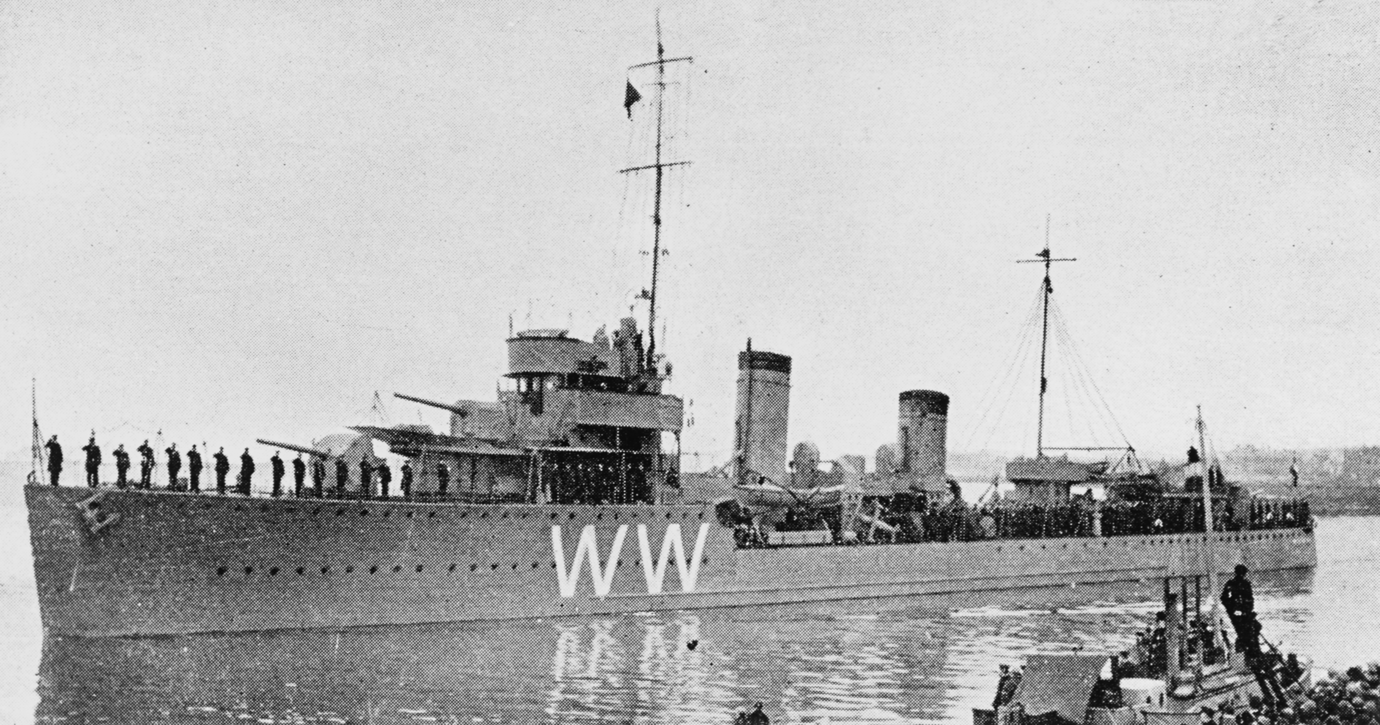 The Dutch destroyer Witte de With photographed at Den Helder, Netherlands, circa 1935.